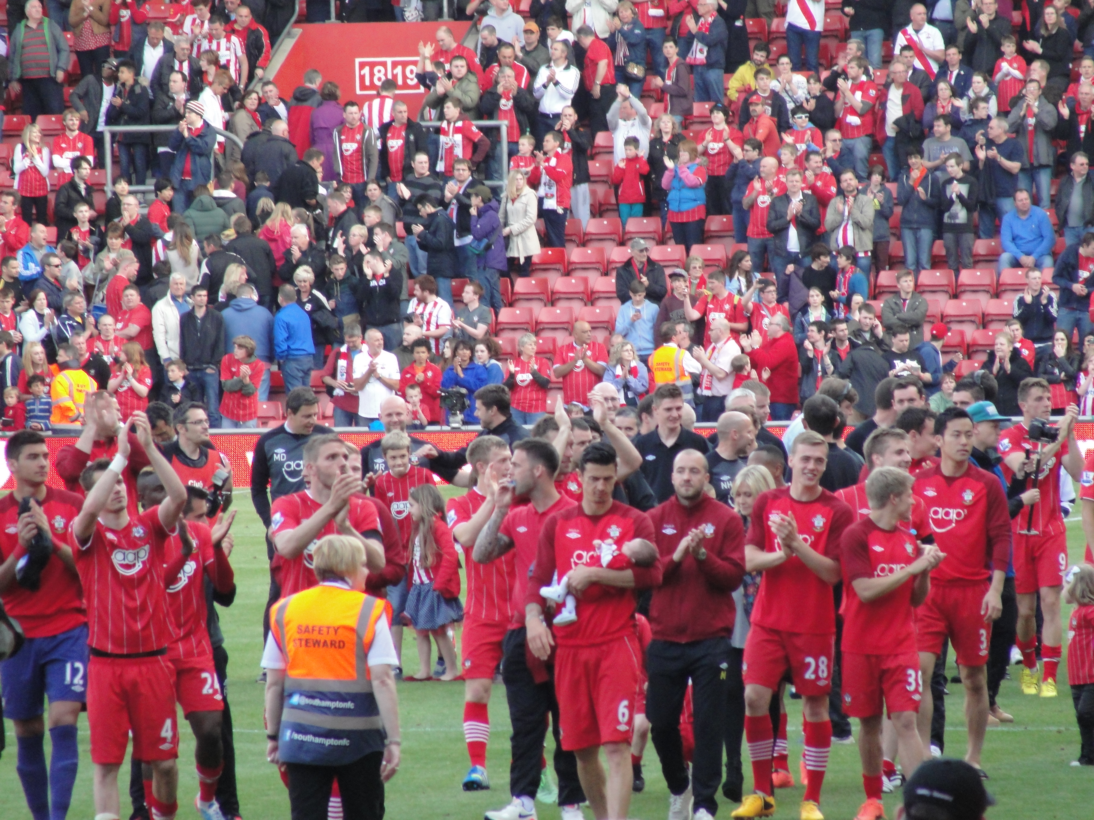 Southampton F.C. players completing a lap of honour at St Mary's Stadium on the final day of the 2012/13 Premier League season, 19 May 2013.